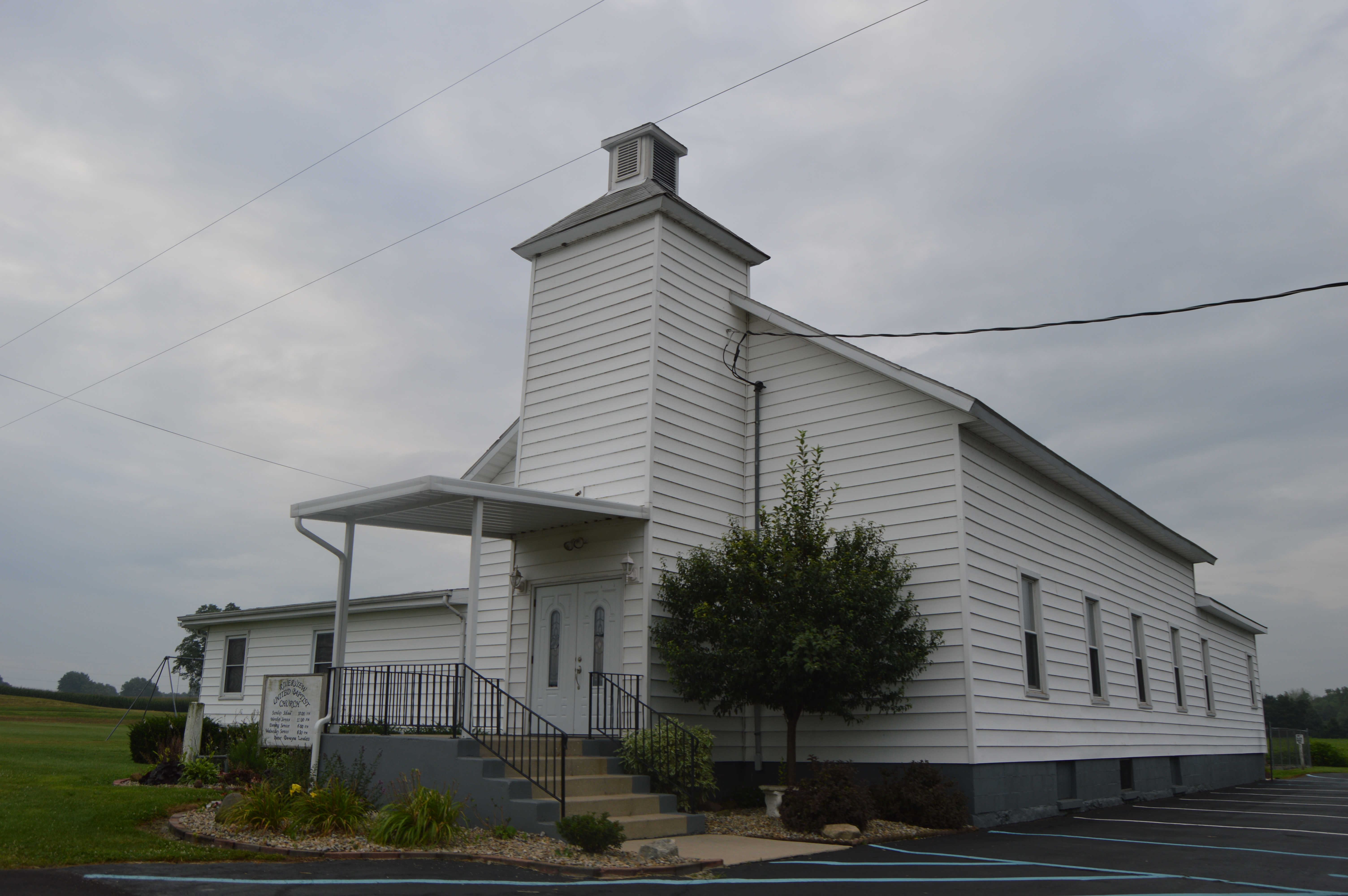 Front and western side of the Riverview United Baptist Church, located at 6601 Black Mills Road southwest of Albany in Delaware Township, Delaware County, Indiana, United States.